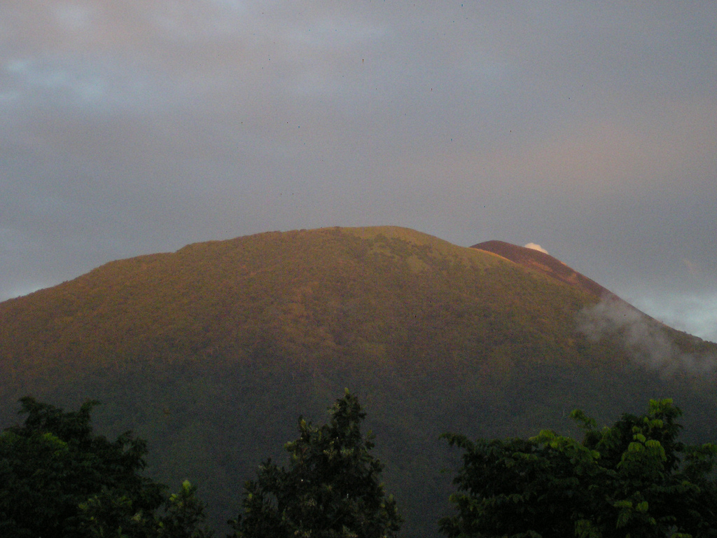 The peak of Mount Gamalama, Ternate